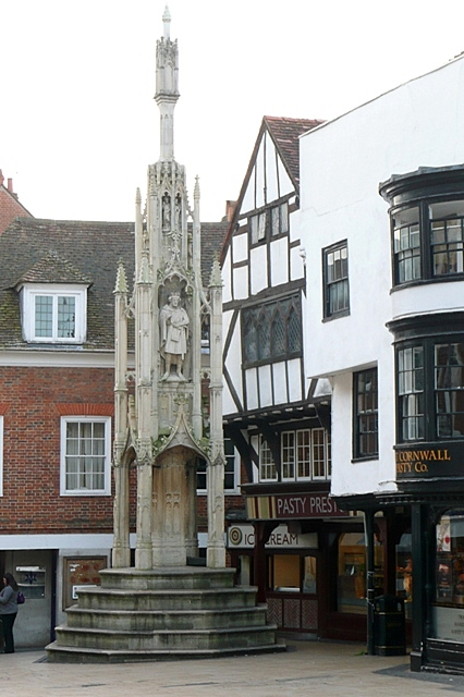 Winchester, the butter cross Although there has been a cross on this site since the 15th century, and parts of this one date from the 15th century, contemporary with the adjacent buildings, today's butter cross was mainly restored in 1865 by George Gilbert Scott. This followed its near demise in 1777 when the Paving Commissioners sold it to a Mr Dummer who wished to have it removed. The citizens of Winchester rioted and had it retained. Today it is an Ancient Scheduled Monument.